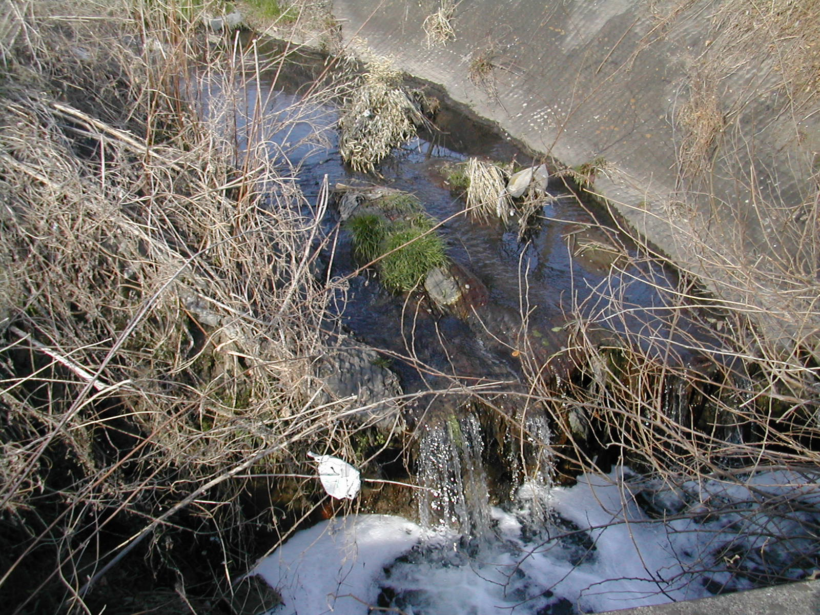 Tenginmae,ohoririver,chiba,japan